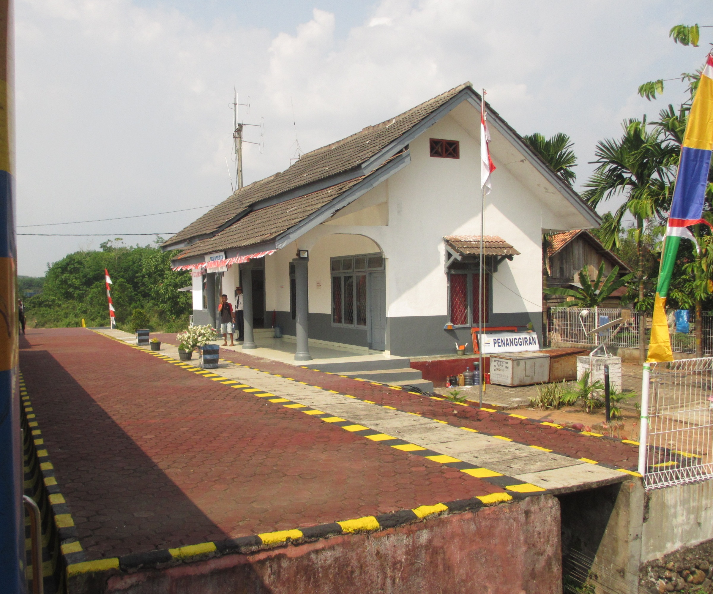 Penanggiran Railway Station.